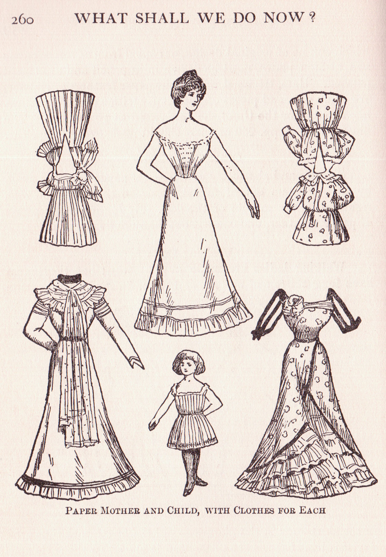 Mother and Child Paper Dolls with clothes From the book "What Shall We Do Now? 500 Children's Games and Pastimes" by Dorothy Canfield and Others. The book was published by Frederick A. Stokes Company Publishers or New York in 1907. Page 260 The book is in the public domain and all images should be copyright free. Flickr data on 2011-08-16: Tags: copyright free, public domain, images, illustrations, black and white, children, games, book License: CC BY 2.0 User: perpetualplum Sue Clark